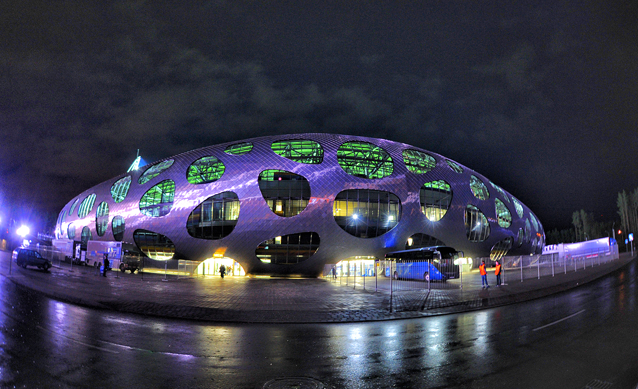 Barysaw-Arena (Borisov Arena) in Barysaw, Minsk Voblast, Belarus